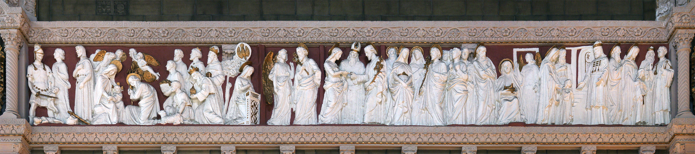 Church of Nativité-de-la-Sainte-Vierge-d’Hochelaga, Montreal, Quebec, Canada. The monumental frieze on the north side of the nave.